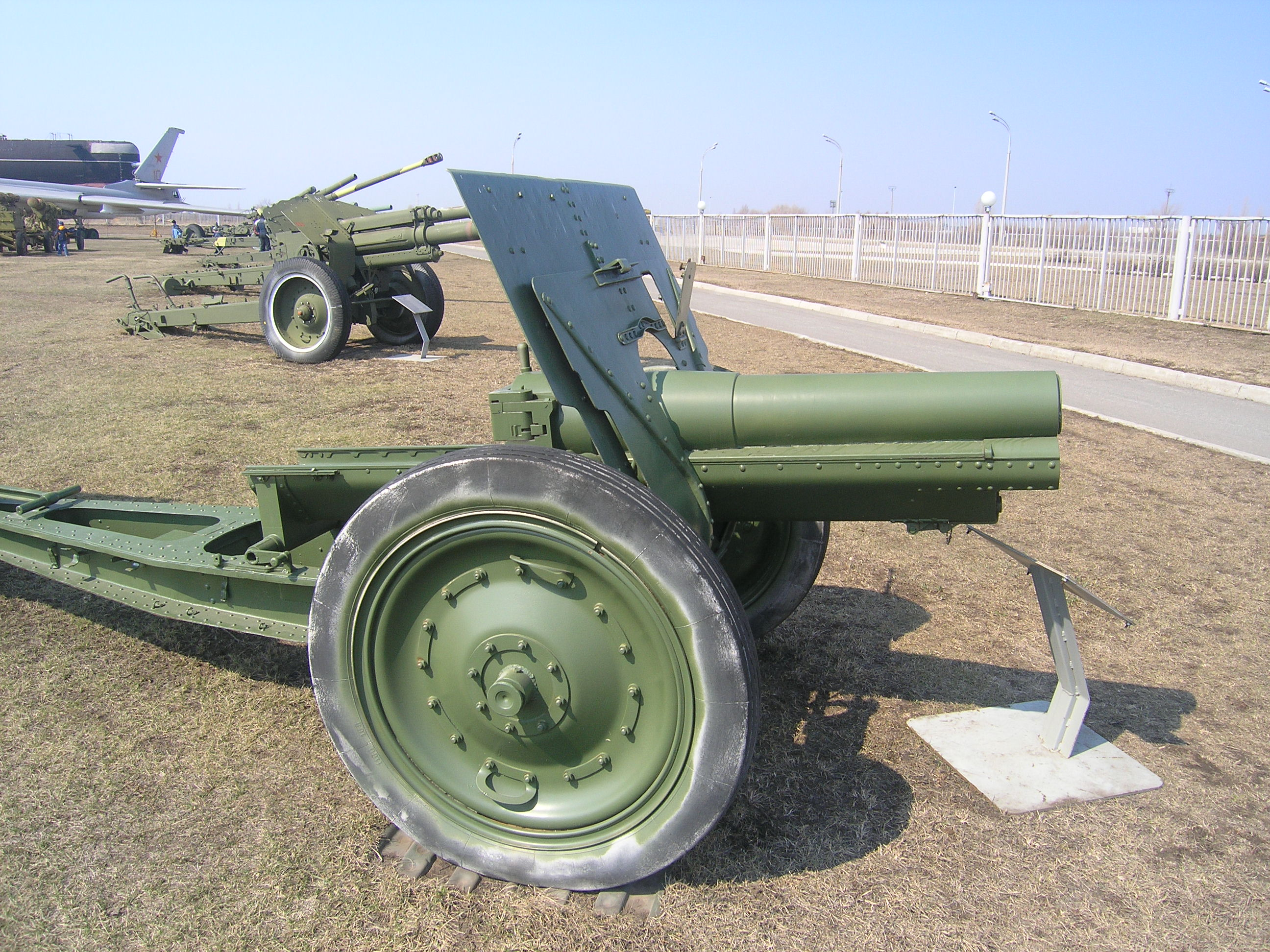 122 mm soviet howitzer Model 1910-1930 in Techical museum Togliatti